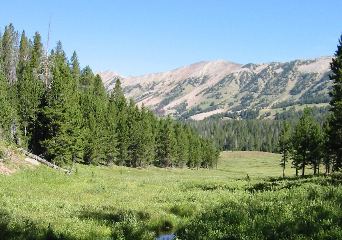 Gallatin National Forest, Montana, U.S. The image shows the view above the Cabin Creek Cabin in the Hebgen Lake area of the National Forest.